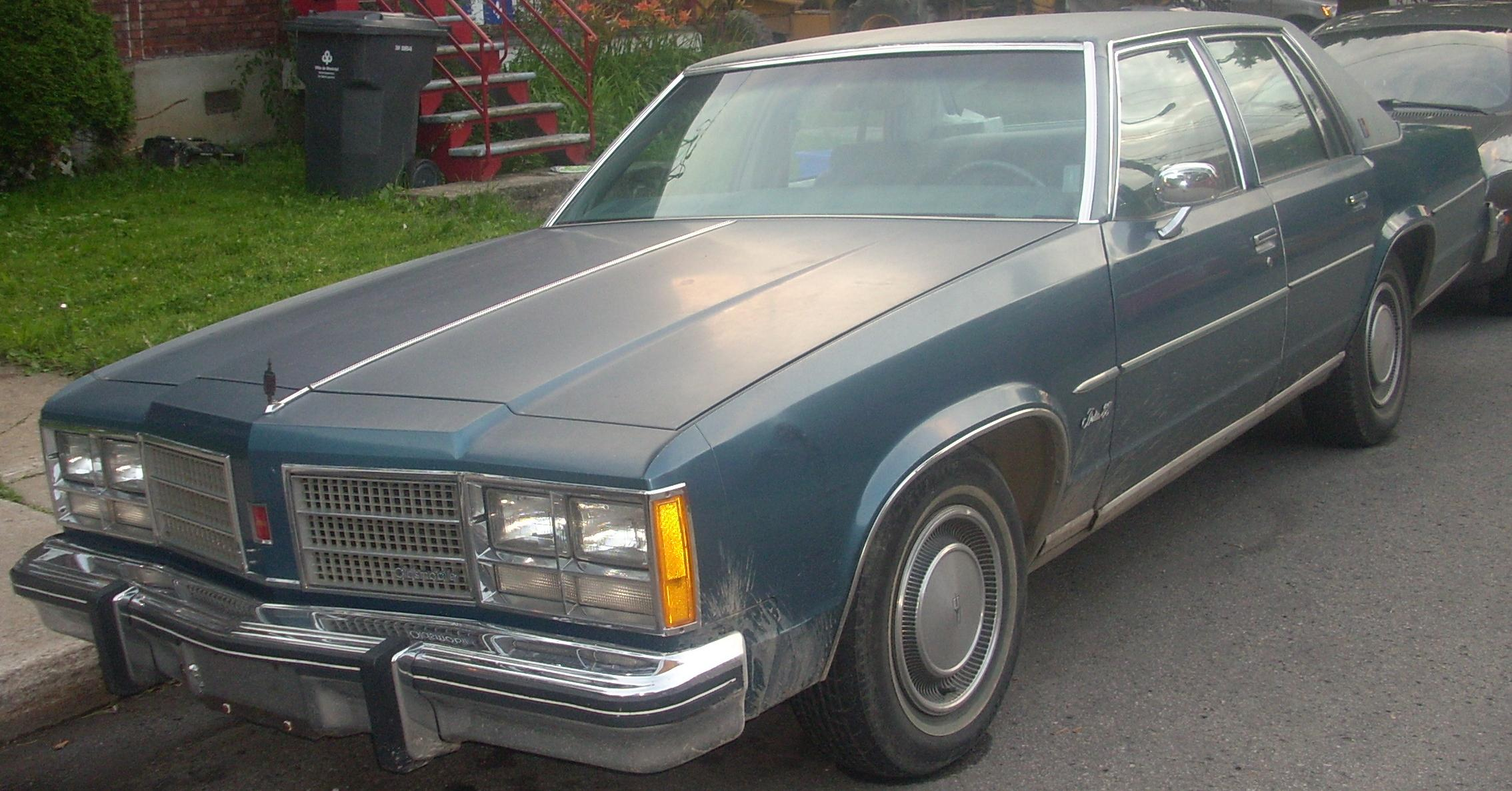 Oldsmobile Delta 88 photographed in Montreal, Quebec, Canada.